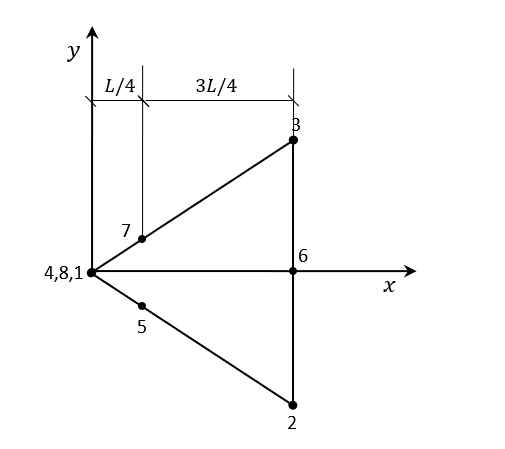 dsadS